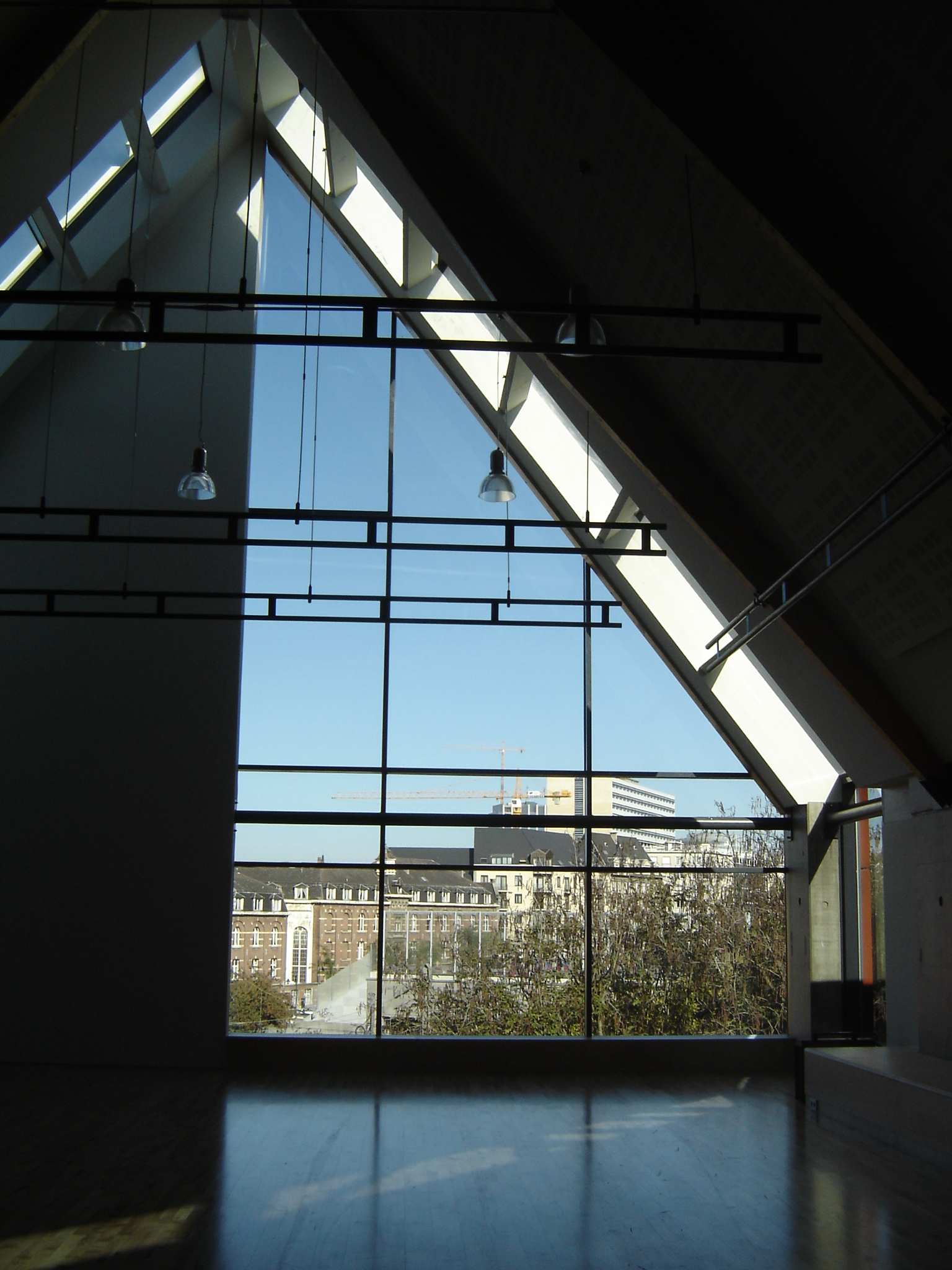 Les Brigittines Theatre, Brussels, Belgium